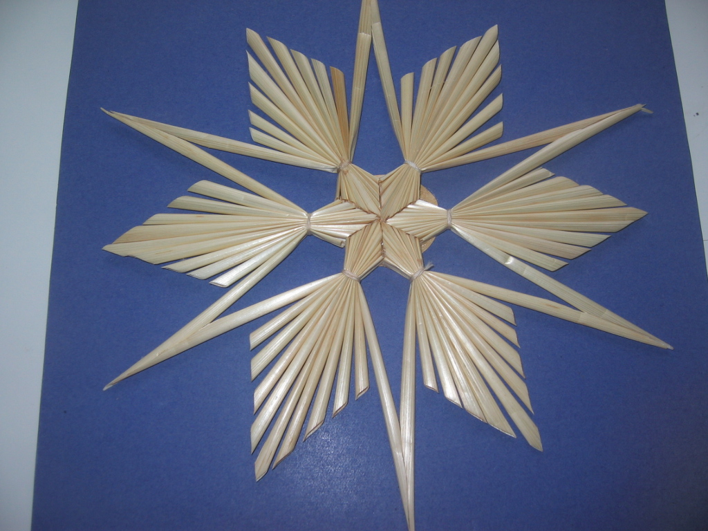 Straw ornament Star